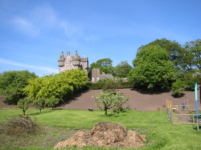 Gardyne Castle. Built over the past 600 years the Gardyne and Lyell families, Gardyne remains a family home.